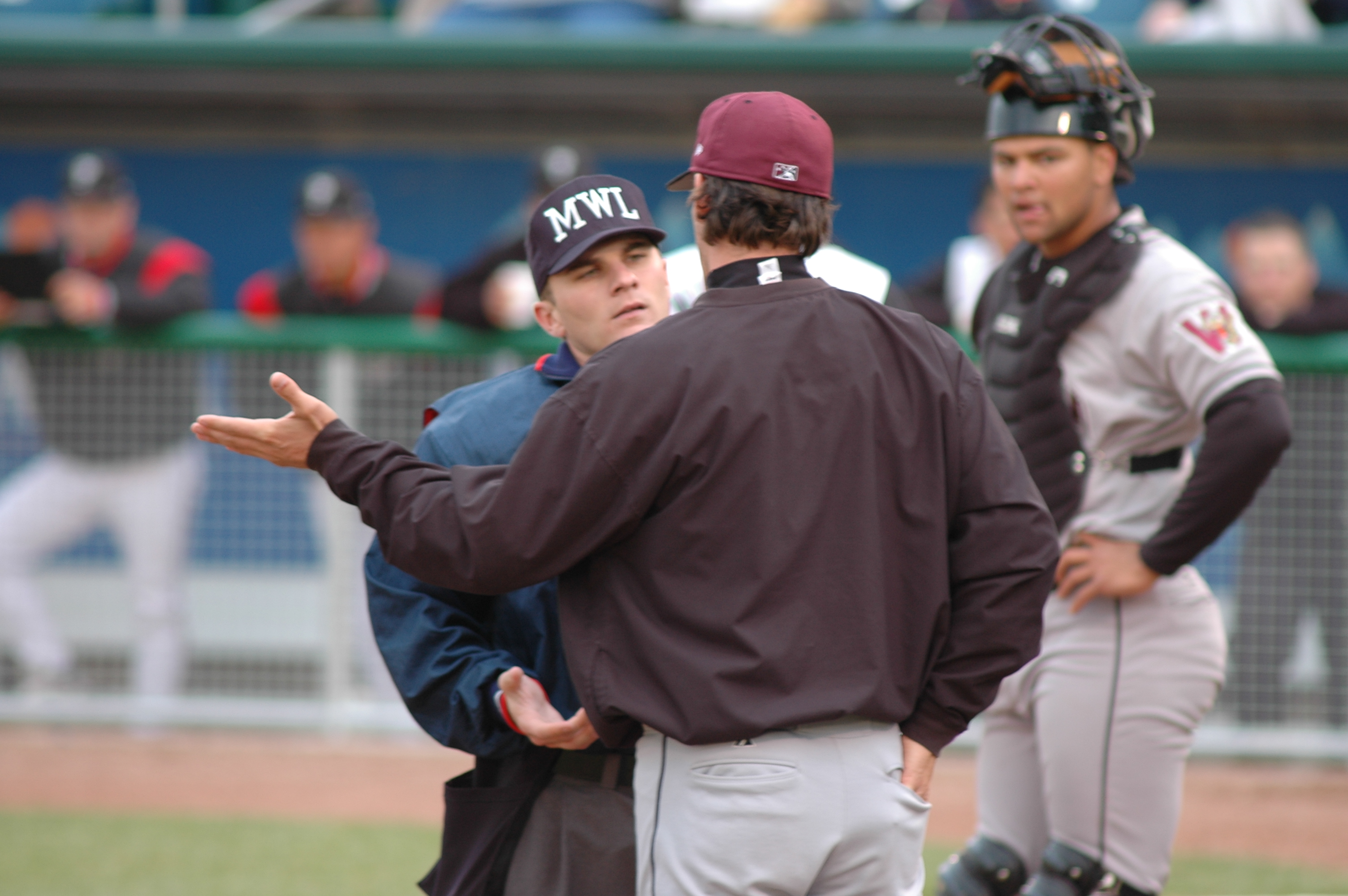 Manager of the Wisconsin Timber Rattlers Scott Steinmann, already having been ejected, continues to argue with umpire Nicholas Nolde as catcher Omar Falcon looks on. Photo taken on May 16, 2005, Wisconsin Timber Rattlers at Lansing Lugnuts Image found here: [1] Photo by Joel Dinda